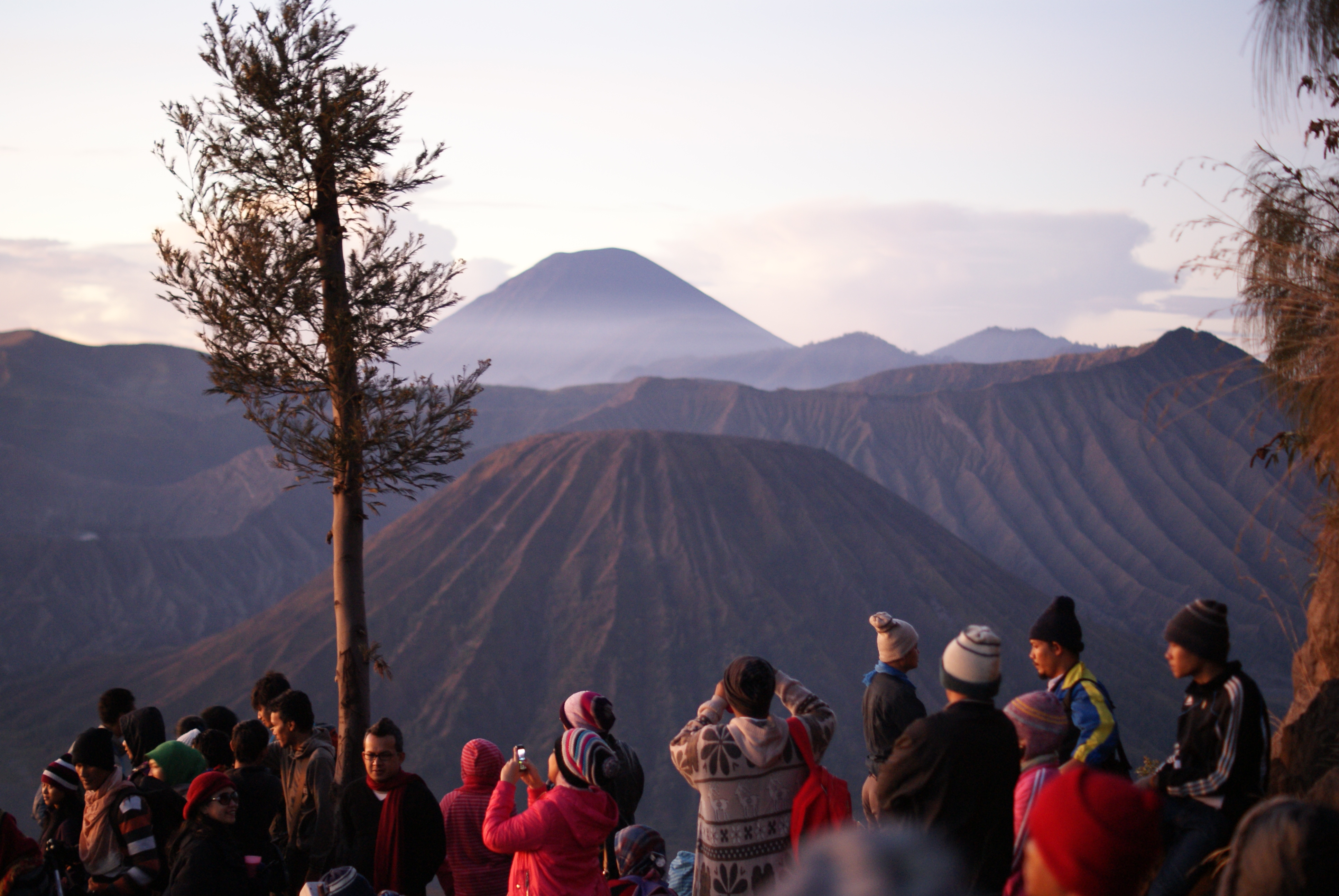 Mount Bromo, East Java, Indonesia (2012)